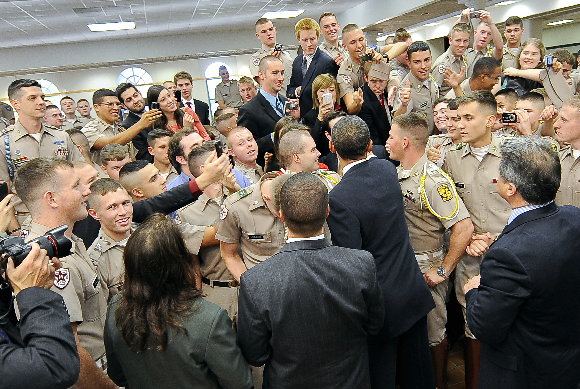 President Barack Obama shakes hands with Texas A&M University cadets after attending the Points of Light Foundation forum at the university in College Station, Texas, Oct. 16, 2009.